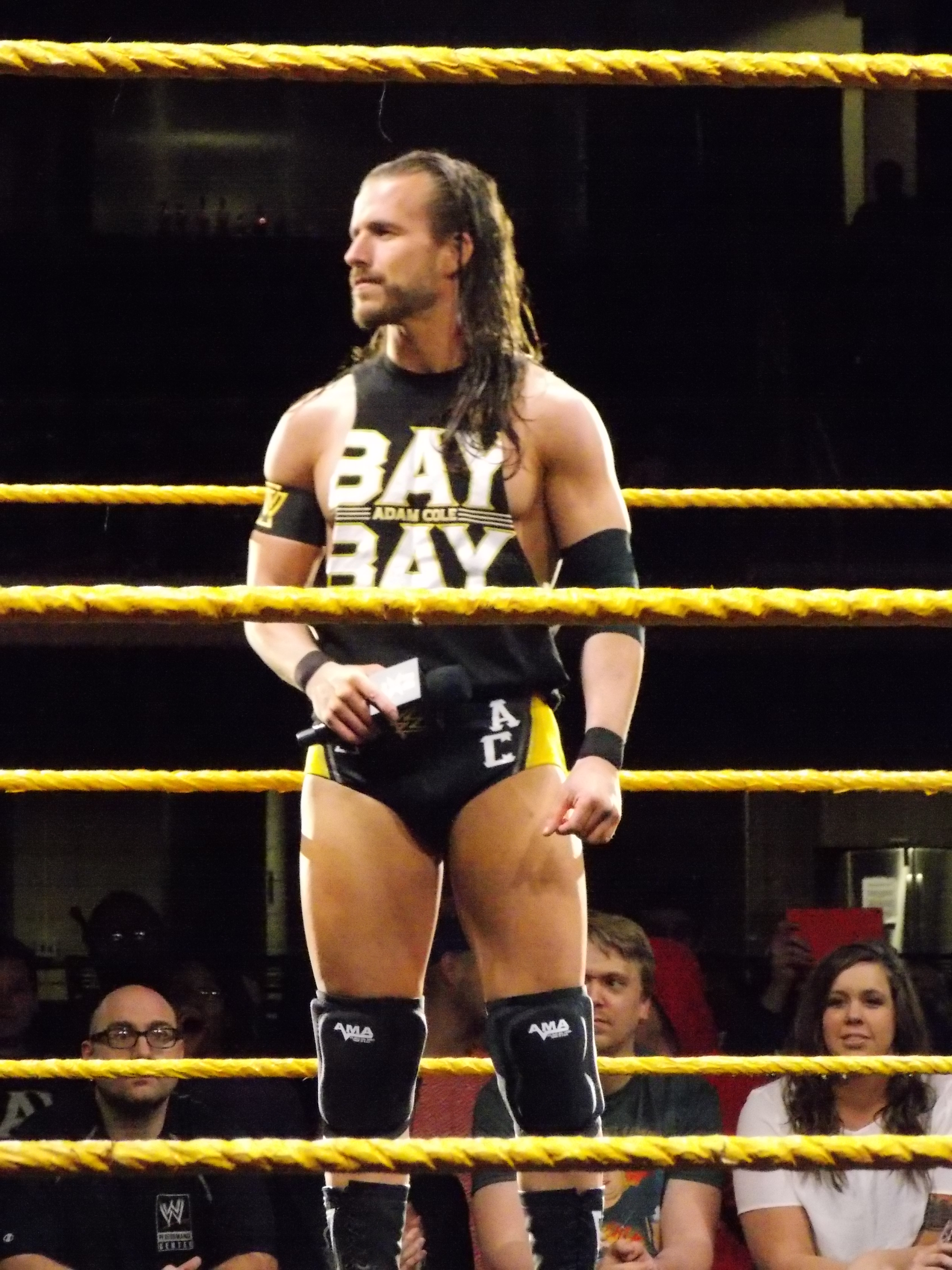 Adam Cole at an NXT Live Event in Omaha, Nebraska, USA on Thursday, April 25, 2019